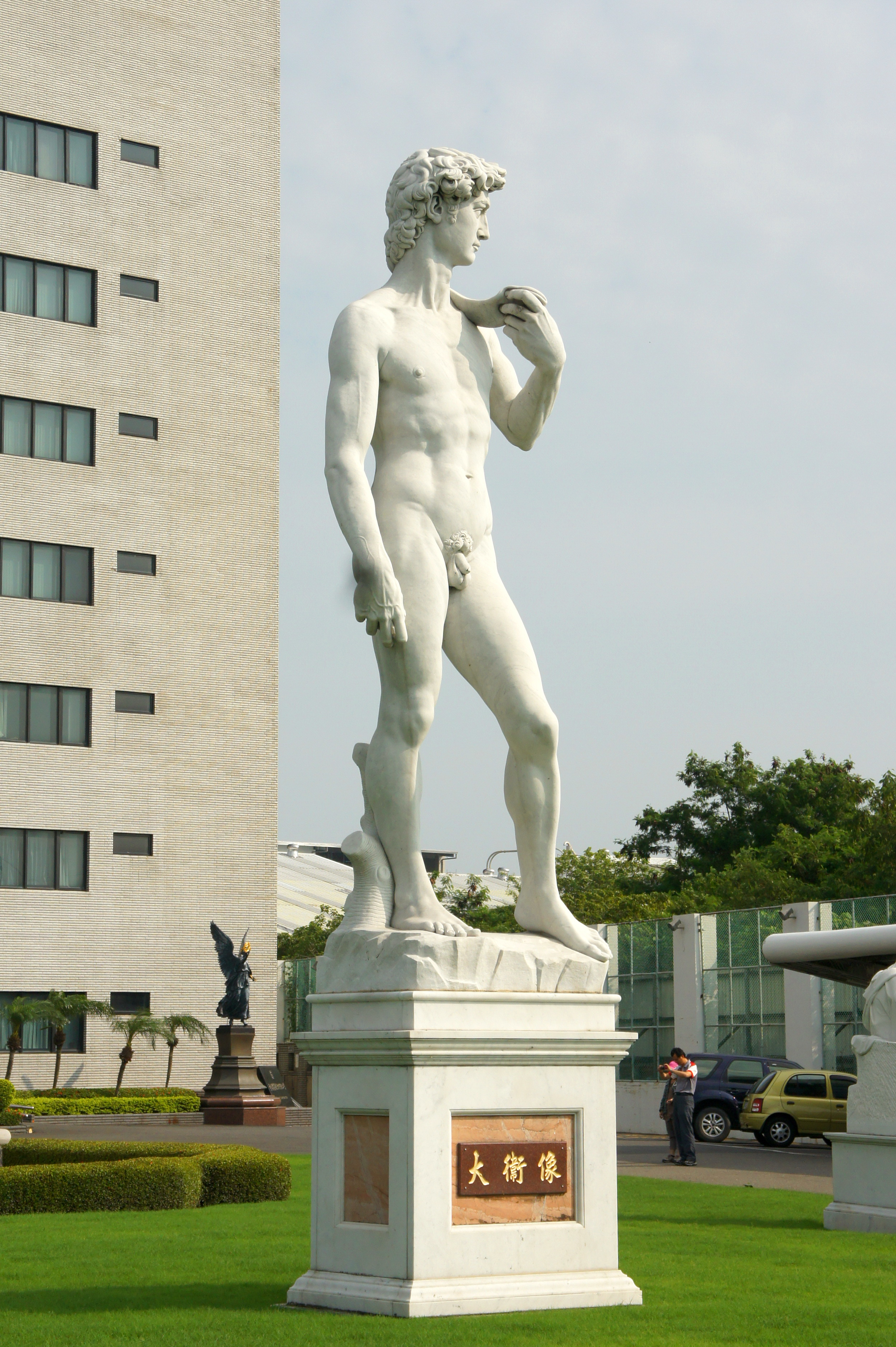 A replica of David in the Chi Mei Cooperation (Chi Mei Museum), Tainan, Taiwan.